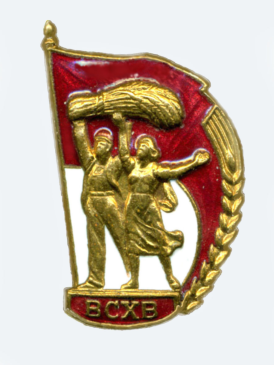 Badge. 1954. "All-Union Agricultural Exhibition (VSKhV)"